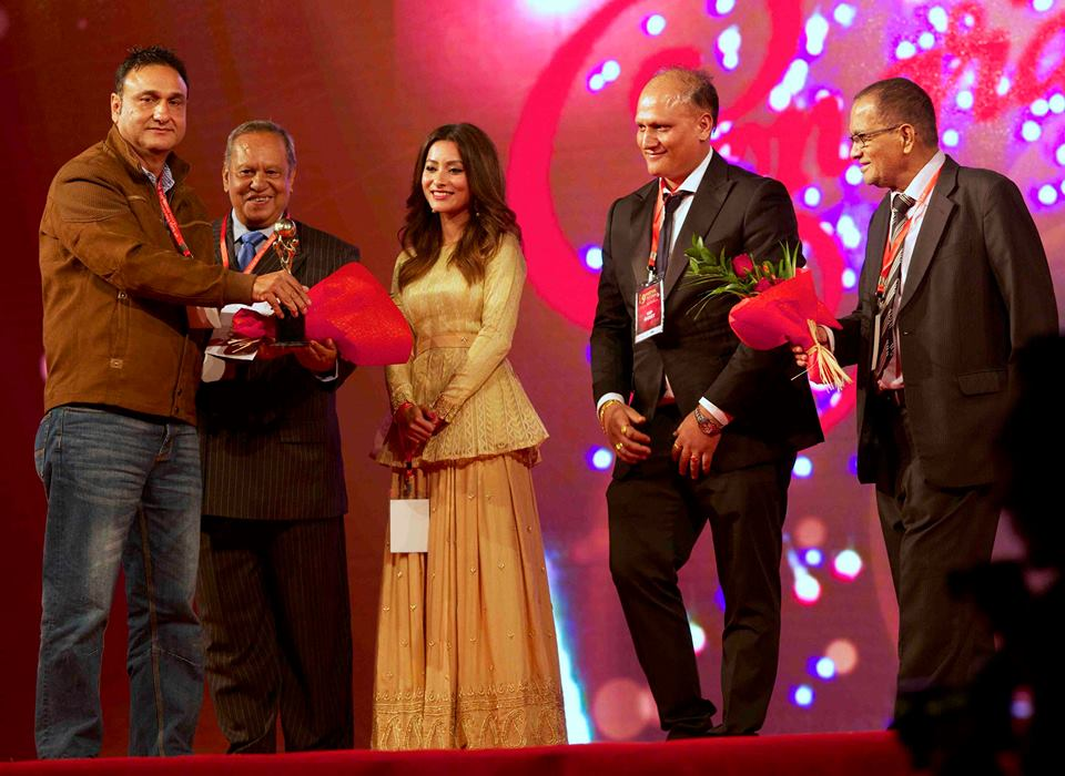 Ujwal Ghimire getting best Director's Award in 2017